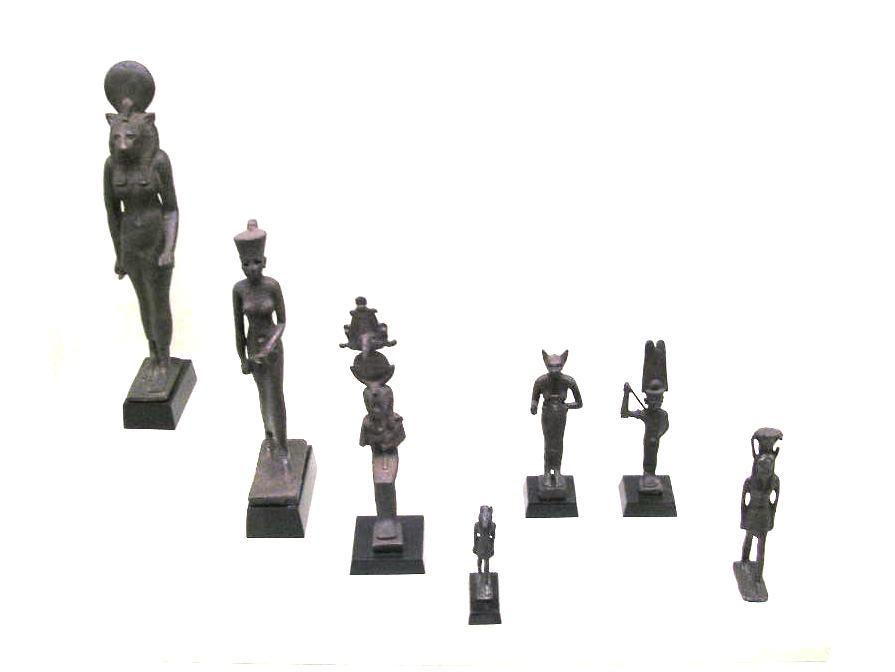 Egyptian gods and goddesses. These statuettes were put in temples and graves as offerings. Ra, the great god of the city of Heliopolis, and Maat his daughter. Osiris and Isis, his wife and also sister, with their son Horus. Ptah, the great god of the city of Memphis, his wife Sekmet, their son Nefertem. Kept in the Istanbul Museums.